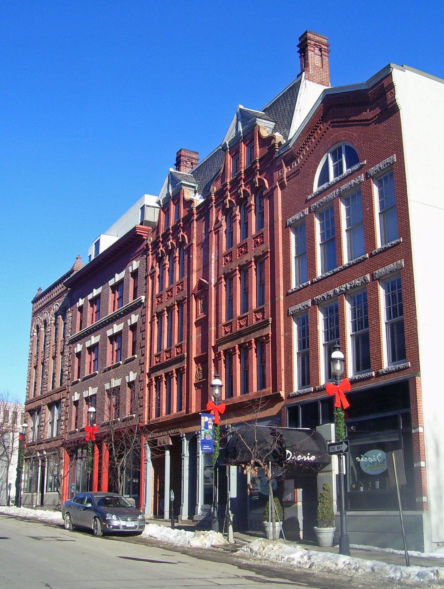 Buildings at 207–231 Bank Street, Waterbury, CT, USA, comprising the historic district on that street.